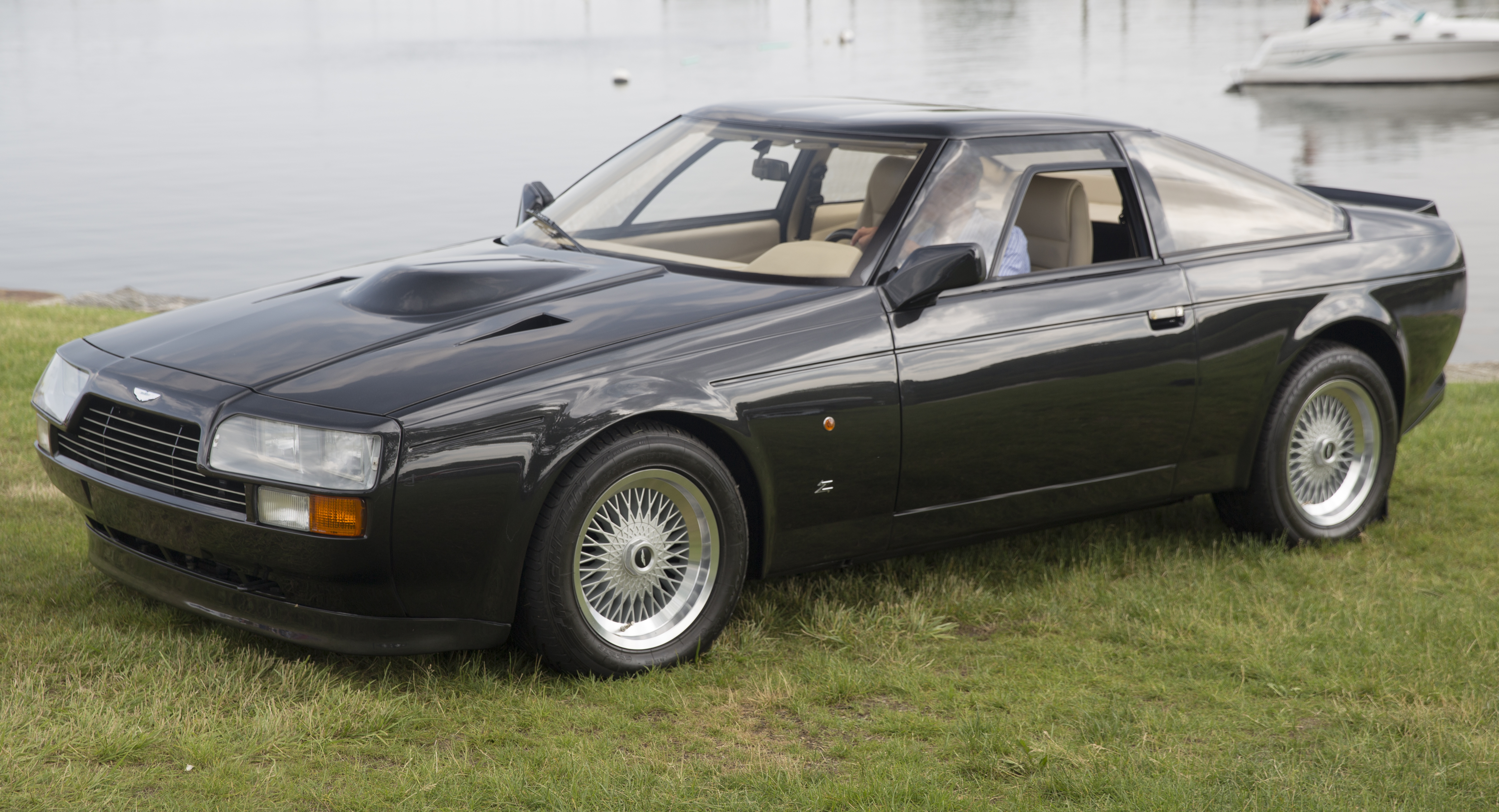 1987/1991 Aston Martin V8 Vantage Zagato, Litchfield Black over Parchment leather. Ordered new (in Javelin Grey over Grey, finished in September 1987) by Abdelaziz bin Khalifa Al Thani of Qatar, he crashed it in Spain in 1989. He then had Aston Martin and Zagato make a brand new car with the original chassis number and using the original X-pack engine (fully rebuilt). It was finished in July 1991 as the last V8 Vantage Zagato. With Middle Eastern specs and a five-speed manual, the car was built again as Vantage Volante Zagato production was winding down. As such, the car benefits from all running updates introduced during the production run, including a different rear bumper, ebony interior finish, an Alcantara headliner and a locking center console. More here.